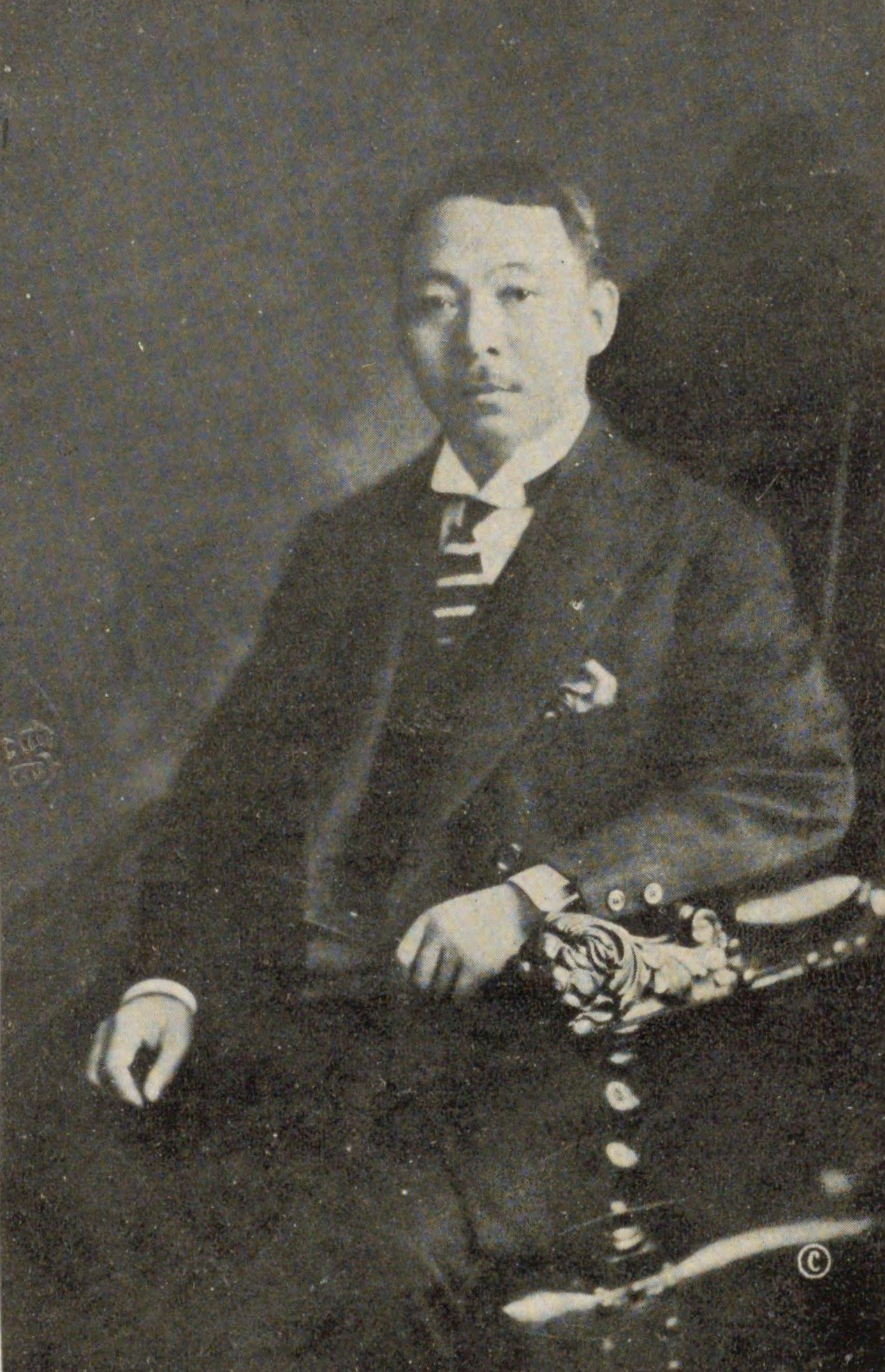 Inabata Katsutarō, a Japanese businessman and politician.